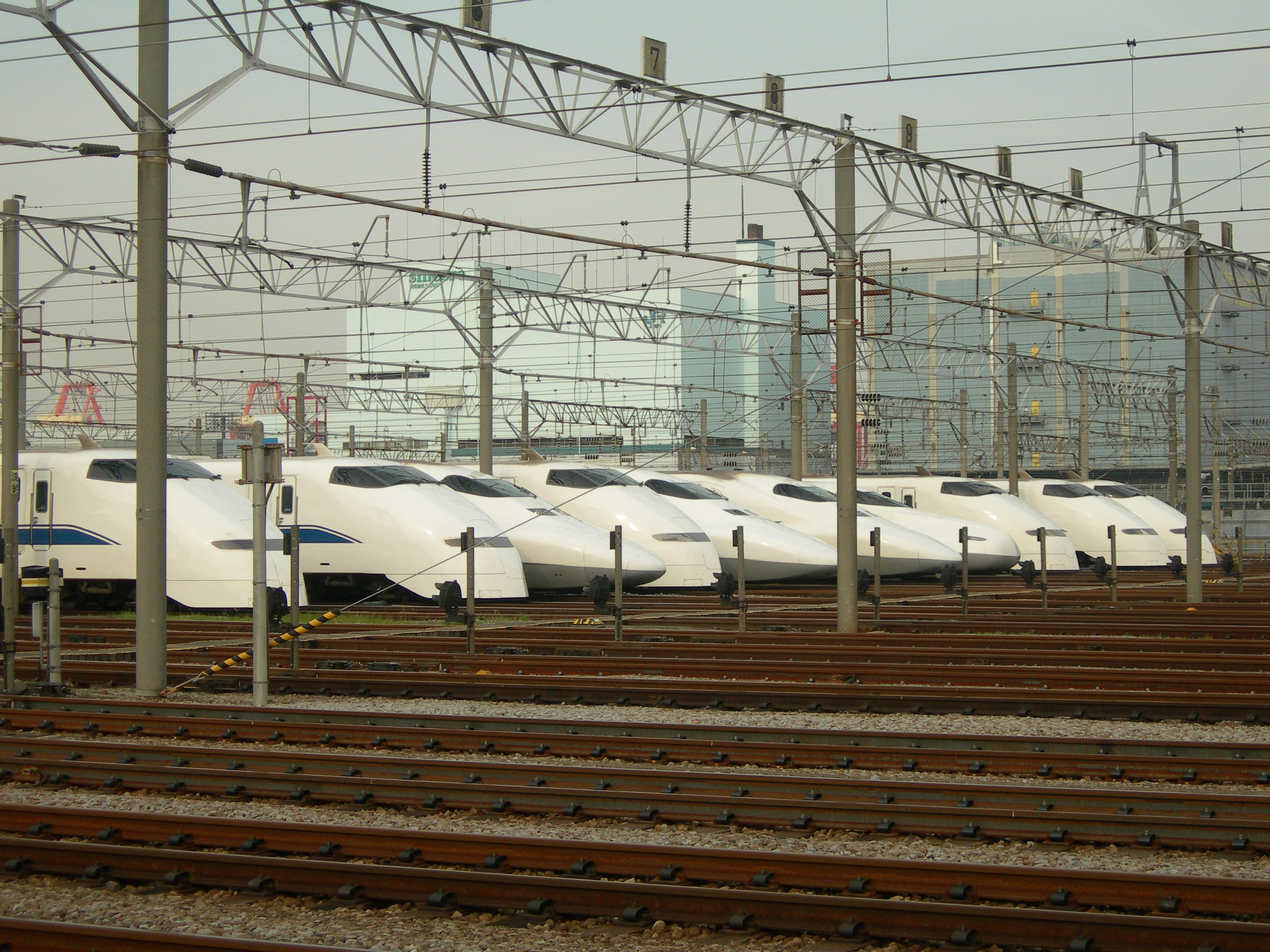 Tokaido Shinkansen Oi Rolling Stock Depot in Shinagawa, Tokyo